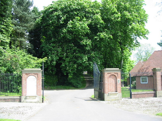 Ednaston Manor. These gates stand at the entrance to Ednaston Manor. The house and grounds and plant nursery used to be open to the public but now it is a private house and access is not permitted.